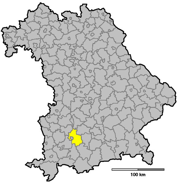 locator map of the former (1970) districts (Landkreise) in Bavaria, Germany